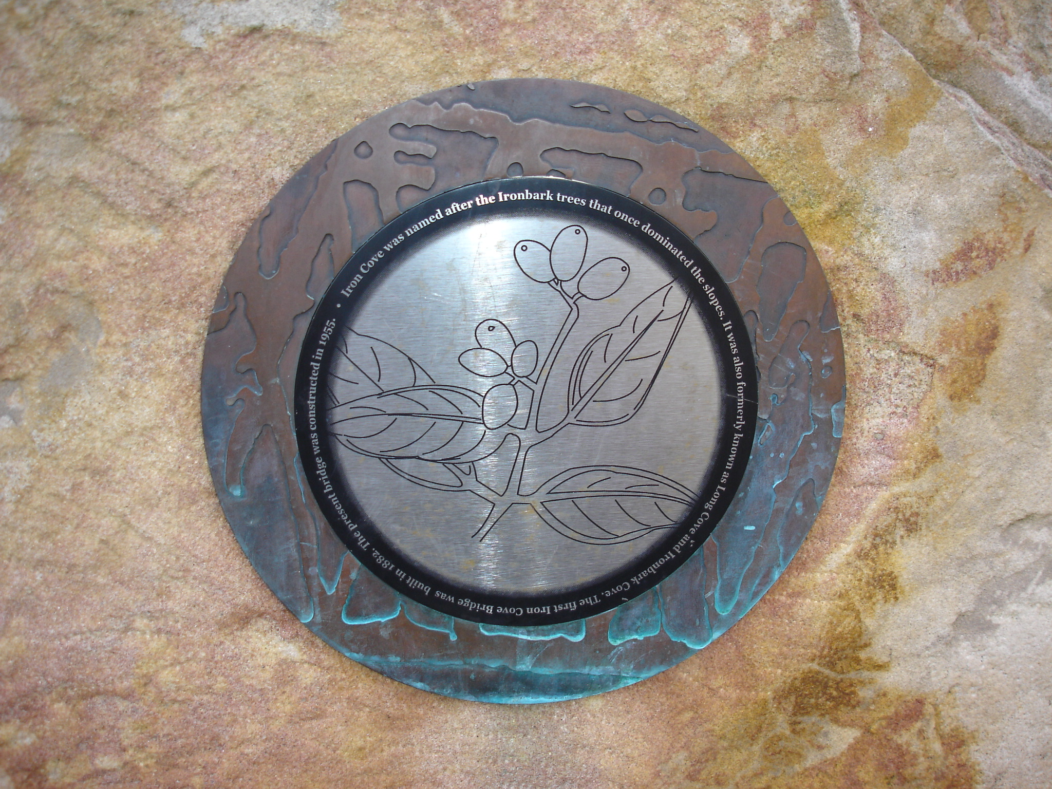 Information Plate, Iron Cove, New South Wales. Picture taken on 20/3/06 by user Amitch.